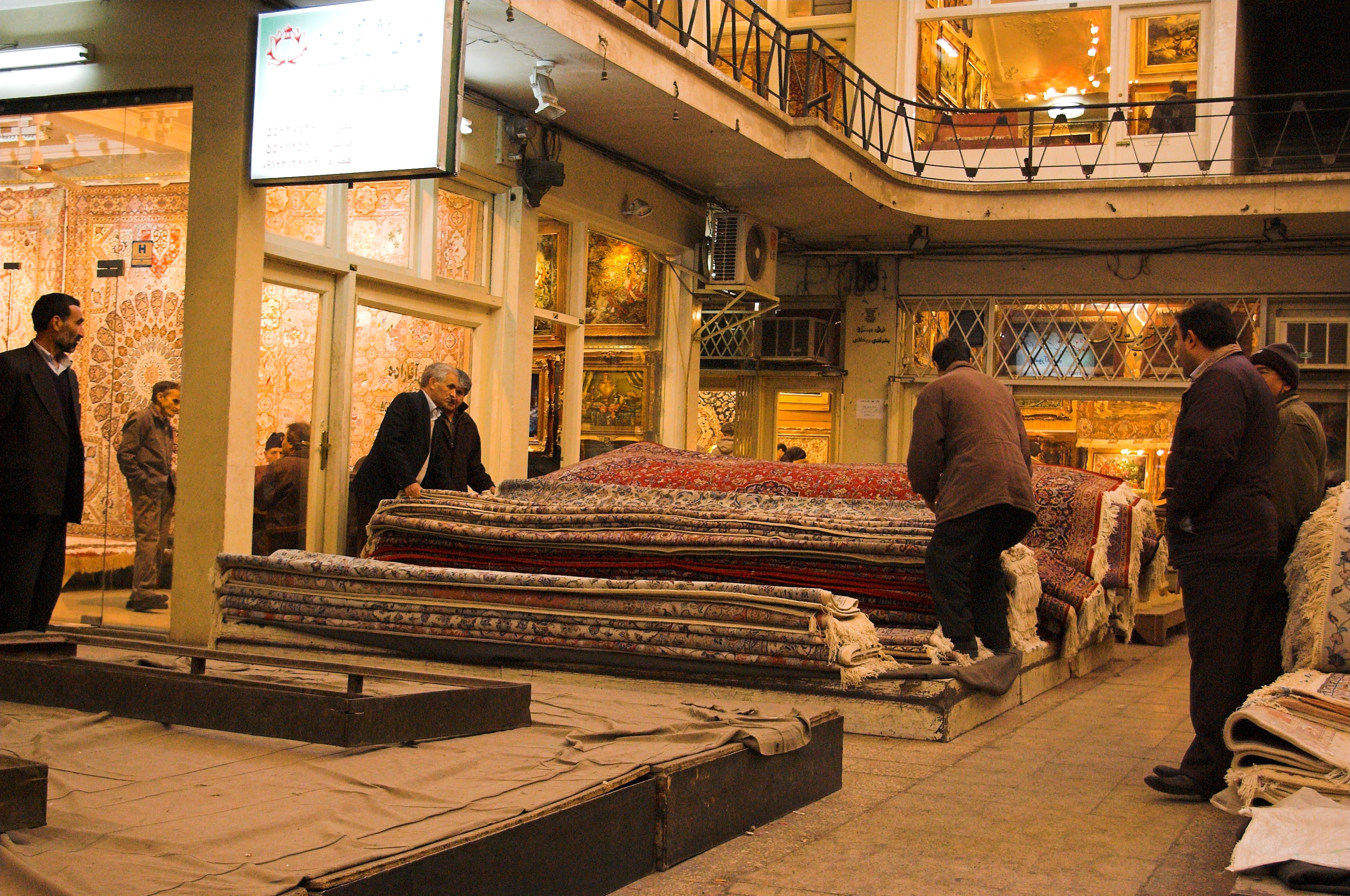 Carpet area inside Tehran's Grand bazaar. Iran